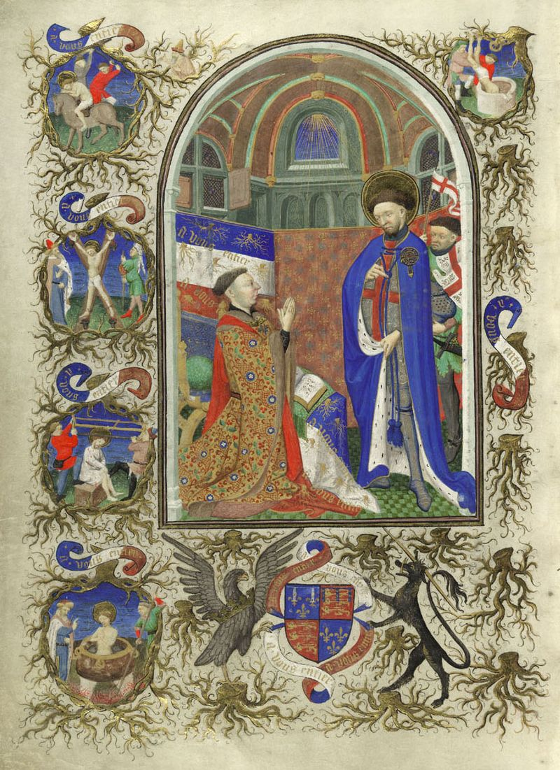 Bedford Hours